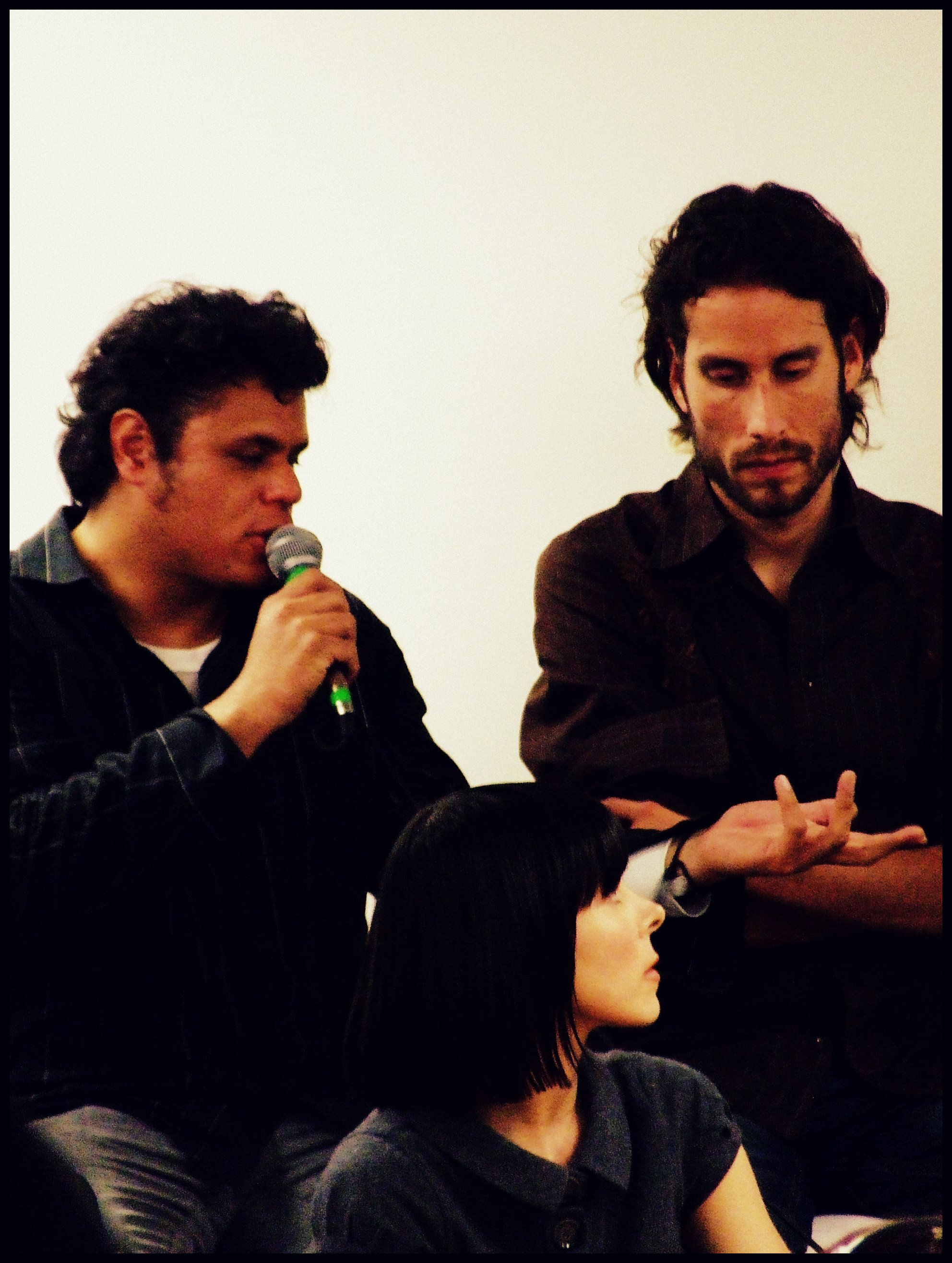 Presentacion del Libro "Vive Latino"